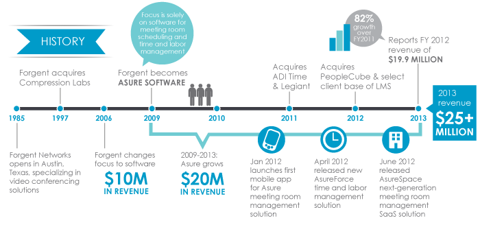 Timeline of Asure Software's history